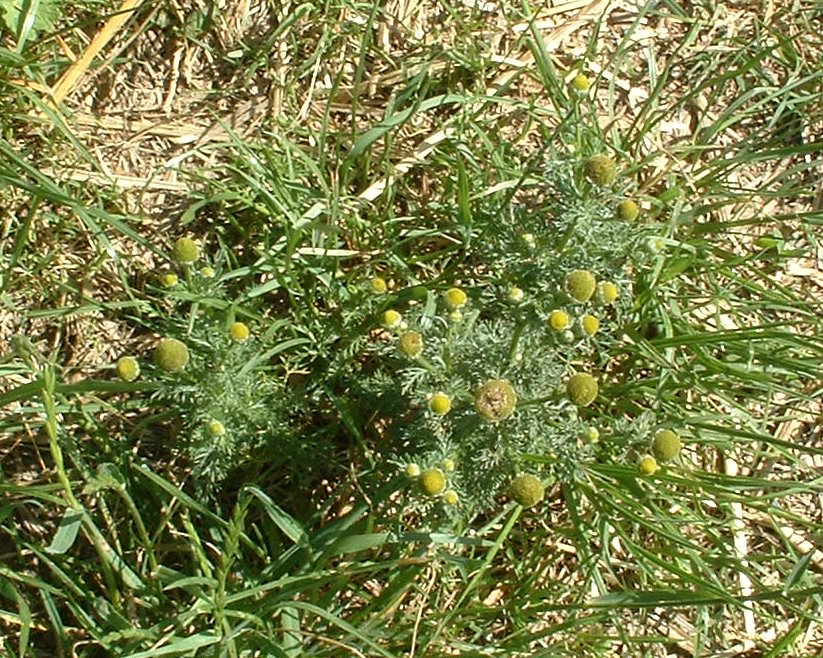 photo taken in May 2006 near saint-etienne (France). Near a farm as most of this kind of plant I have seen.